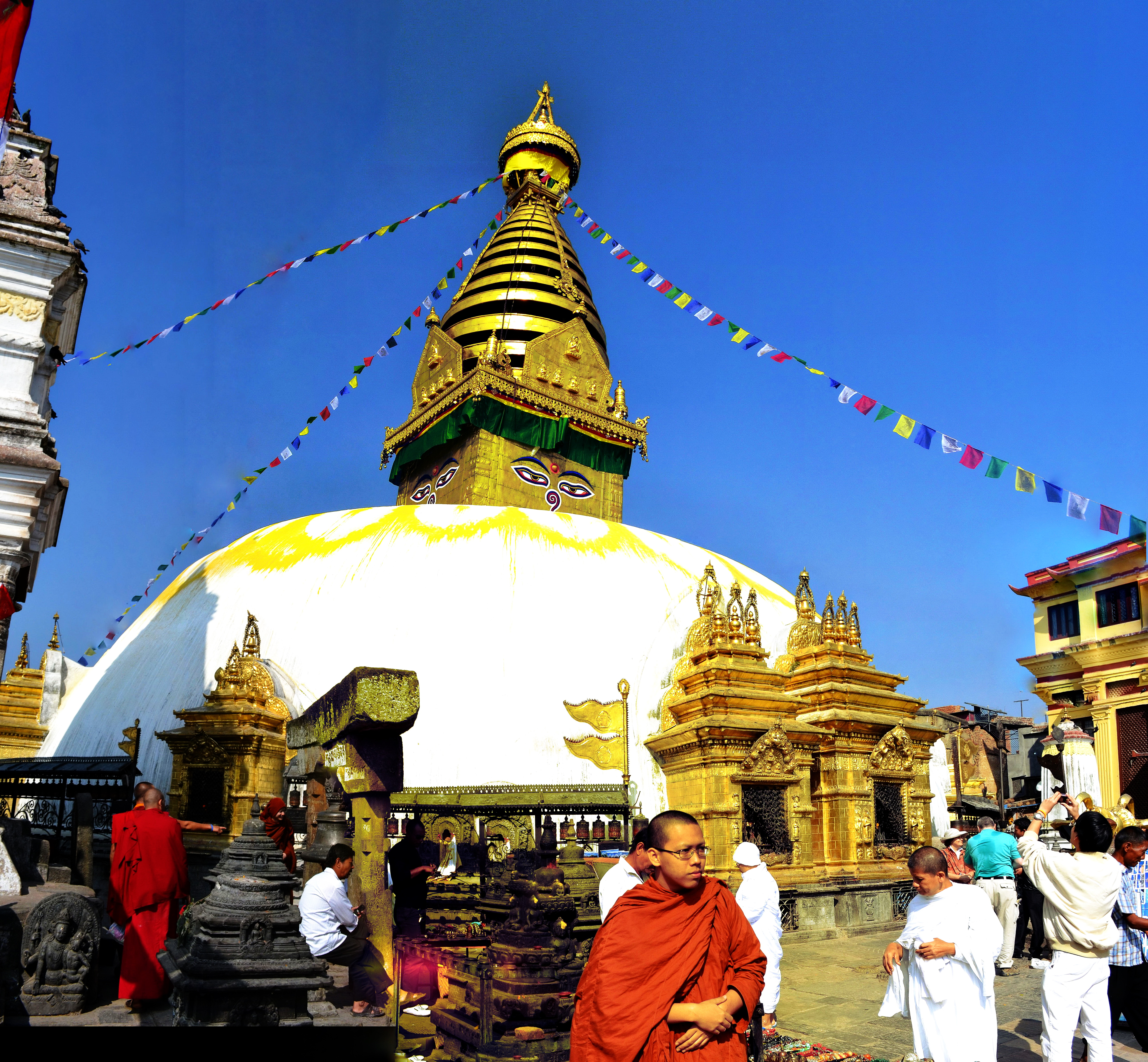 Swayambhunath stupa, Kathmandu, Nepal.